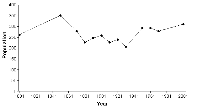 Population of Acton, Cheshire since 1801. (Sources: Genuki, Vision of Britain)